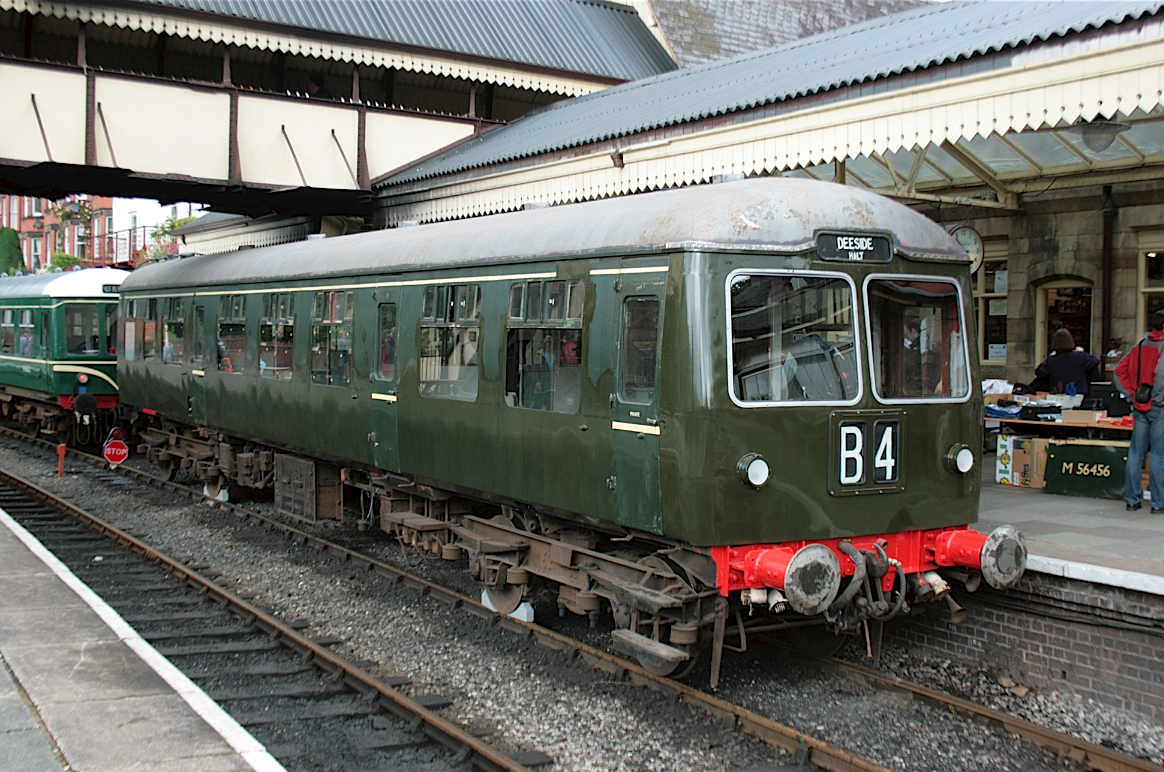 Fully scotched, but Cravens trailer E56456 is moving along nicely.